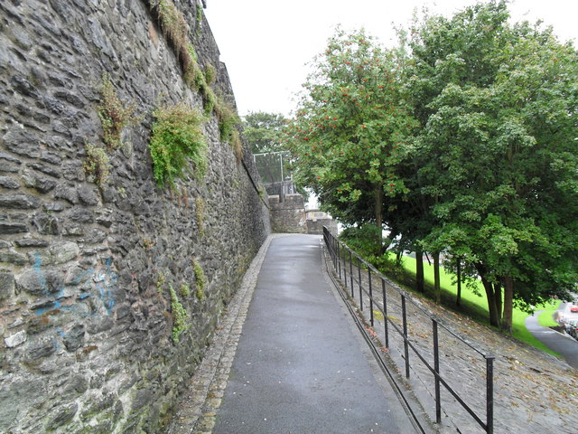 Walkway at Butcher Gate This leads around the outer side of the Walls - at Fahan Street.